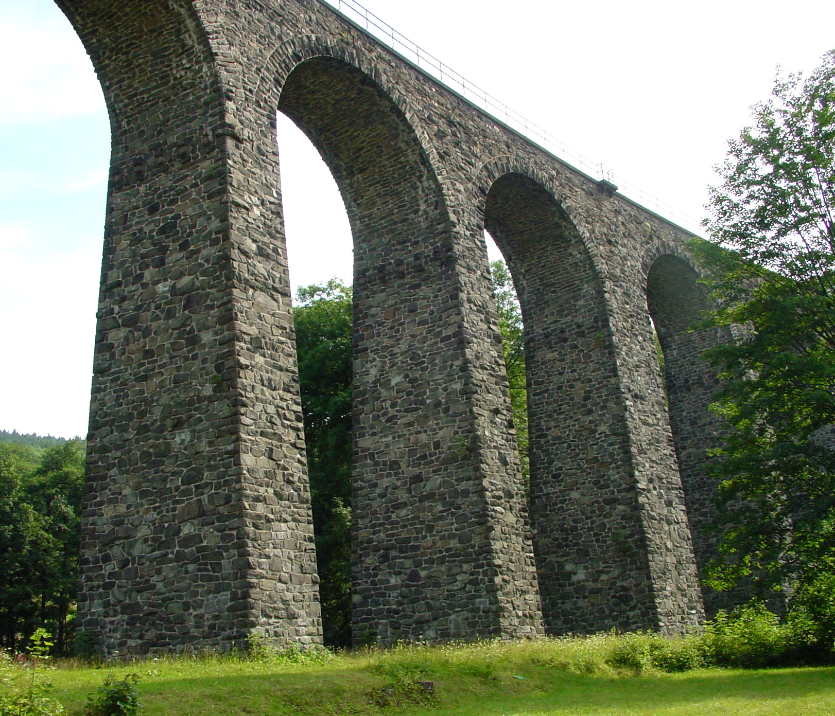 Arched viaduct between Kryštofovo Údolí and Novina near Liberec, Czech Republic